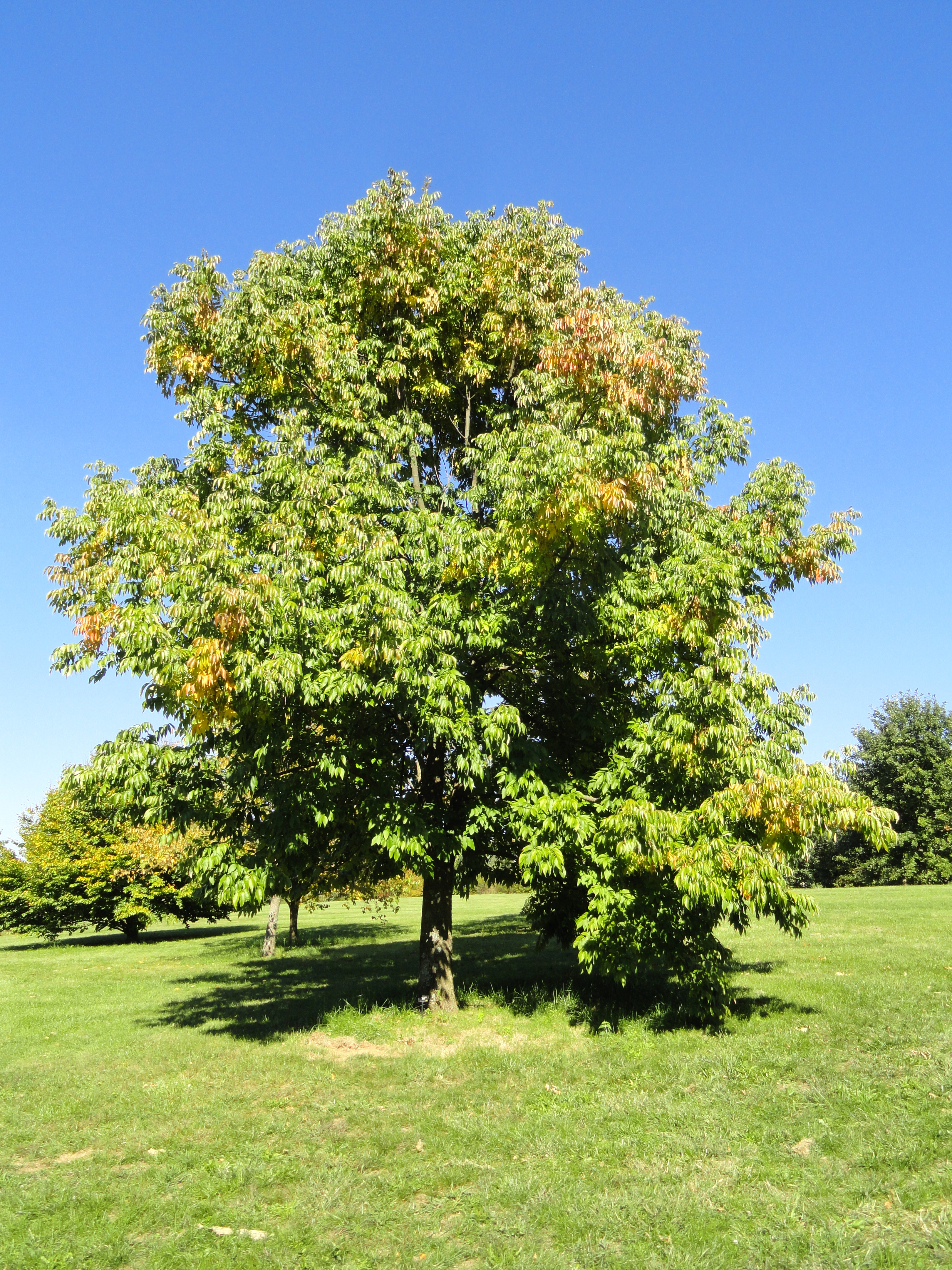 Botanical specimen in the University of Kentucky Arboretum, Lexington, Kentucky, USA.